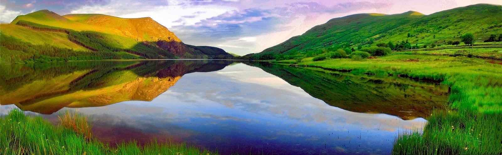 A three shot stitch up of Llyn Cwellyn in Snowdonia, Snowdon just out of shot to the right. The mountain on the left is called Mynydd Mawr (Big Mountain in Welsh)